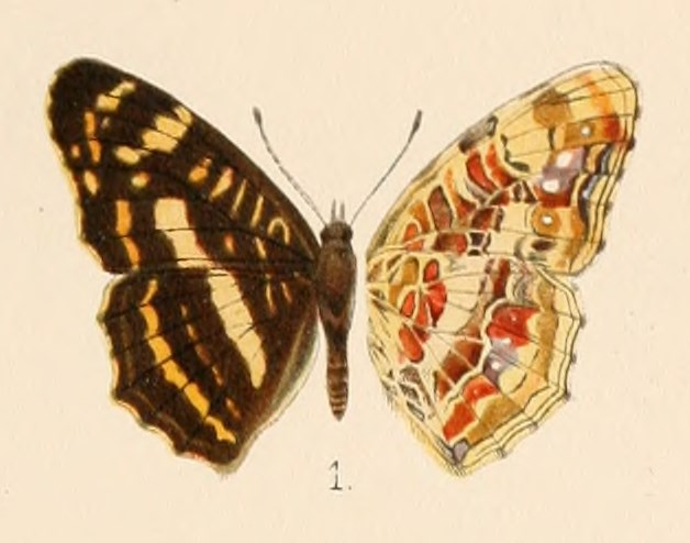 Araschnia prorsoides (male) John Henry Leech - Butterflies from China, Japan and Corea - Plate 26